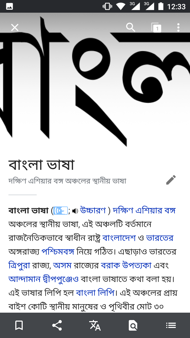 Wikipedia Android app screenshots.